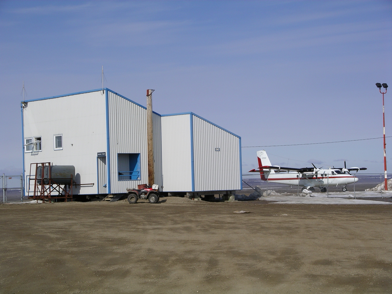 Occasional scheduled services are still provided